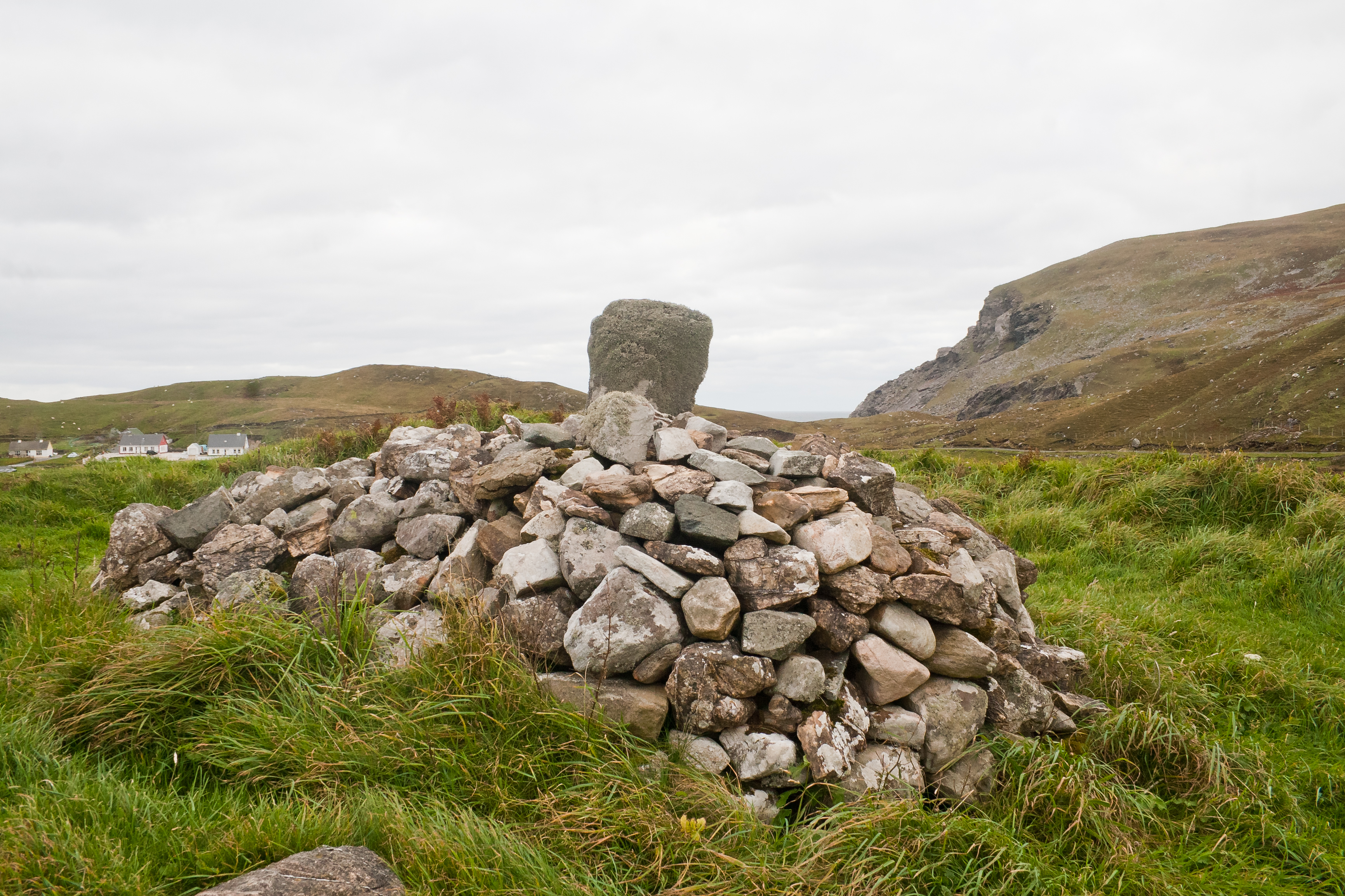 East side of the cairn at the 6th pilgrim station of Turas Cholmcille.